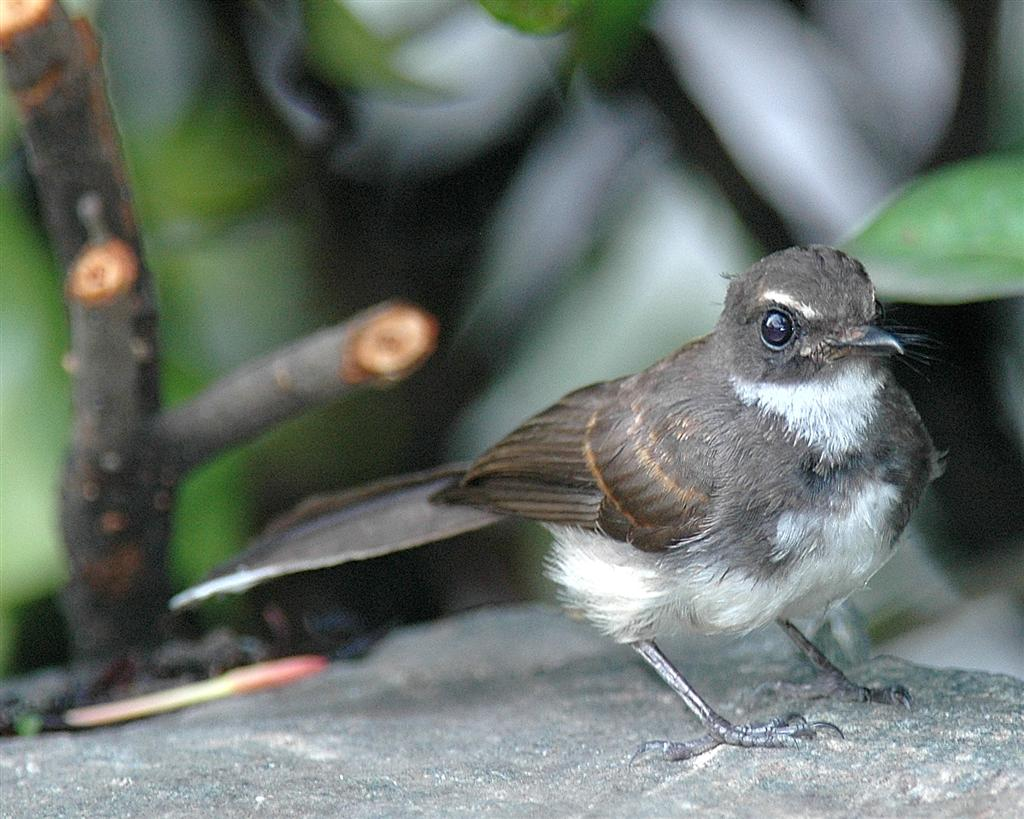 White-throated Fantail (Rhipidura albicollis)